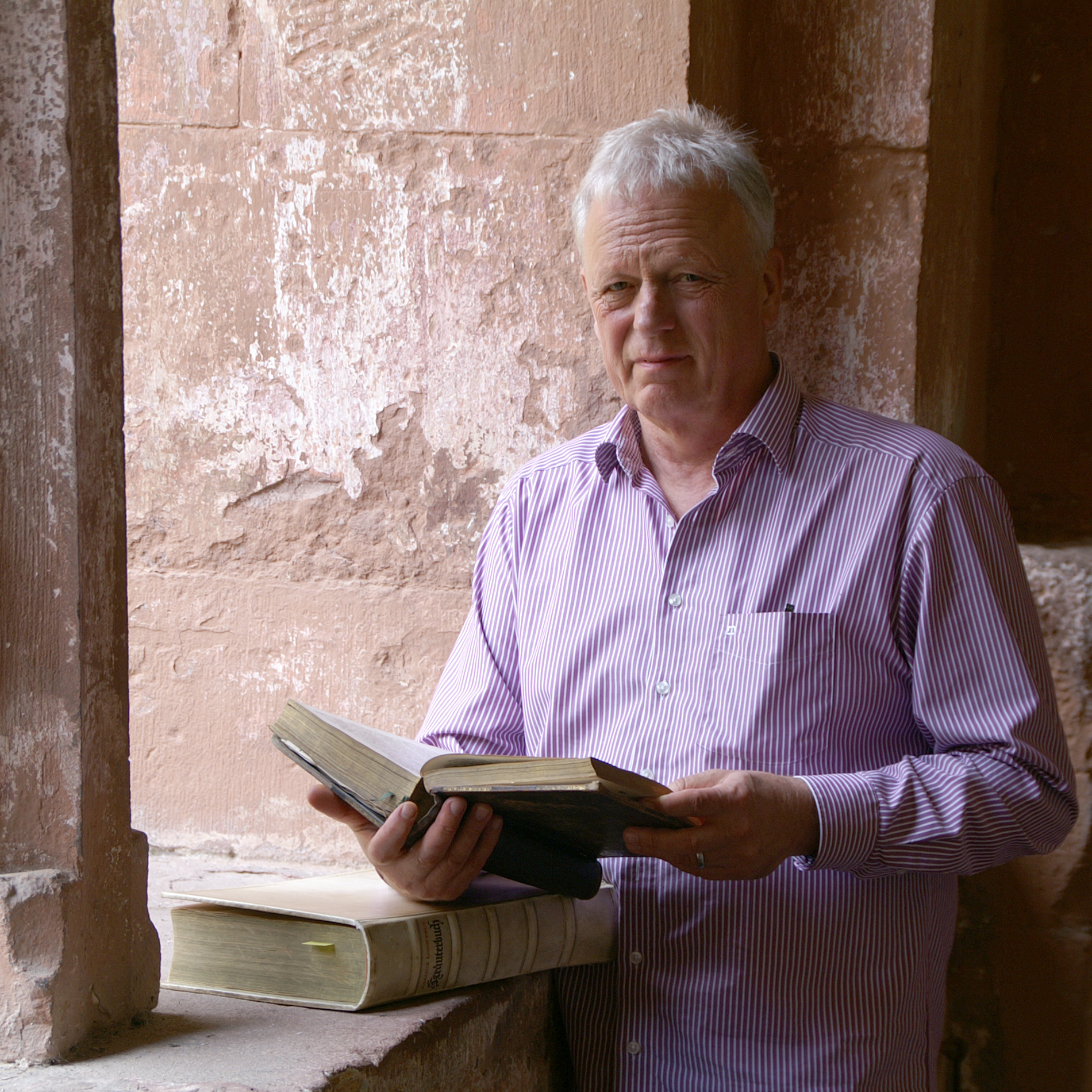 Johannes Gottfried Mayer in Kloster Bronnbach, August 2014.